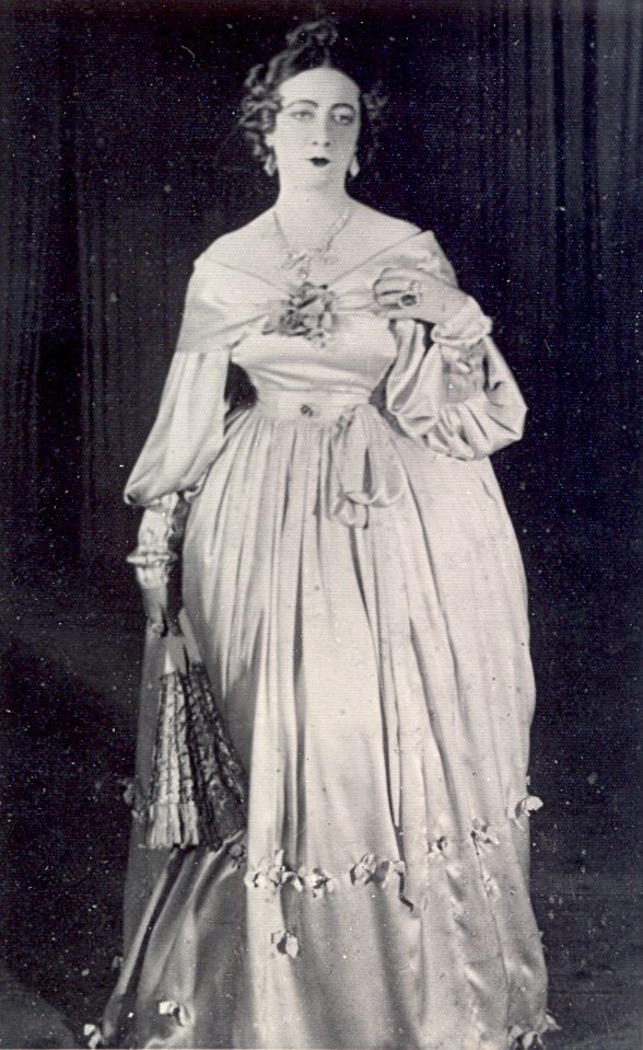 Bulgarian actress Milka Lambreva (1893-1943) in the role of Marie Louise in L'Aiglon by Edmond Rostand on the scene of the National Theater, Sofia, 1934